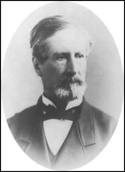 photo of John Clifford Pemberton (1814–1881)